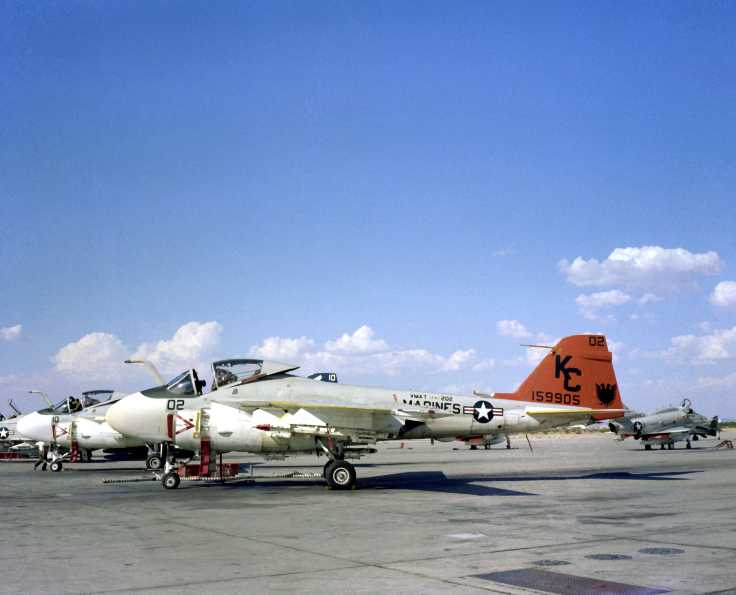 A U.S. Marine Corps Grumman A-6E Intruder (BuNo 159905) from Marine all-weather attack training squadron VMAT(AW)-202 Double Eagles at Naval Air Station Whiting Field, Florida (USA), in 1982.